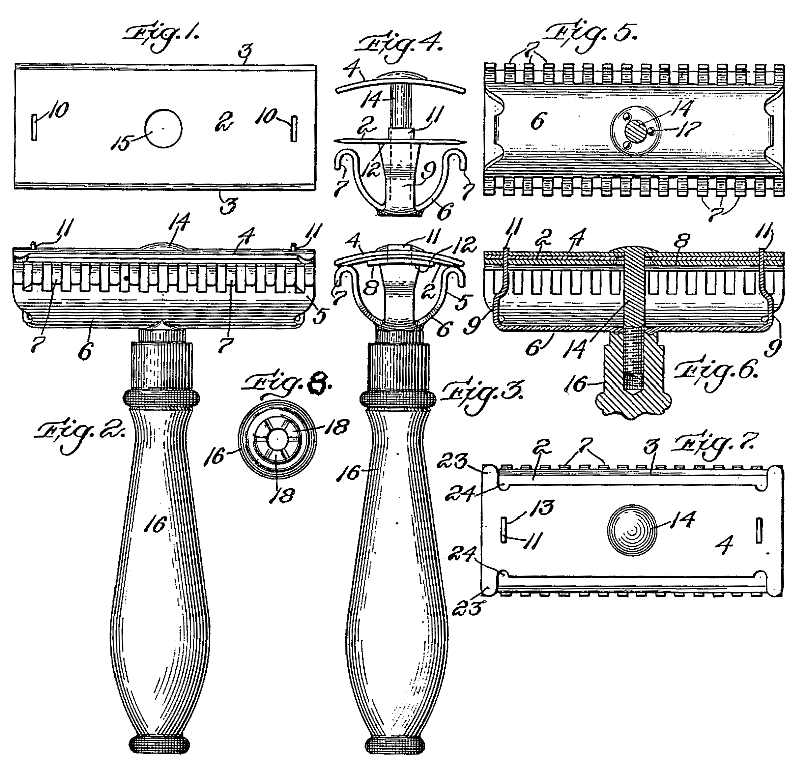 Drawing from US patent 775,134 (safety razor).